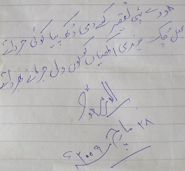 It is an autograph of Anwar Masood, famous poet of Punjabi.